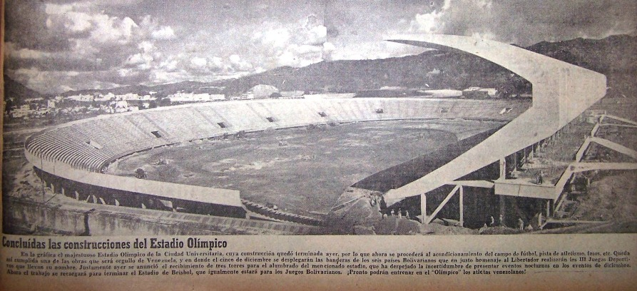 Caracas Estadio Olimpico in 1951